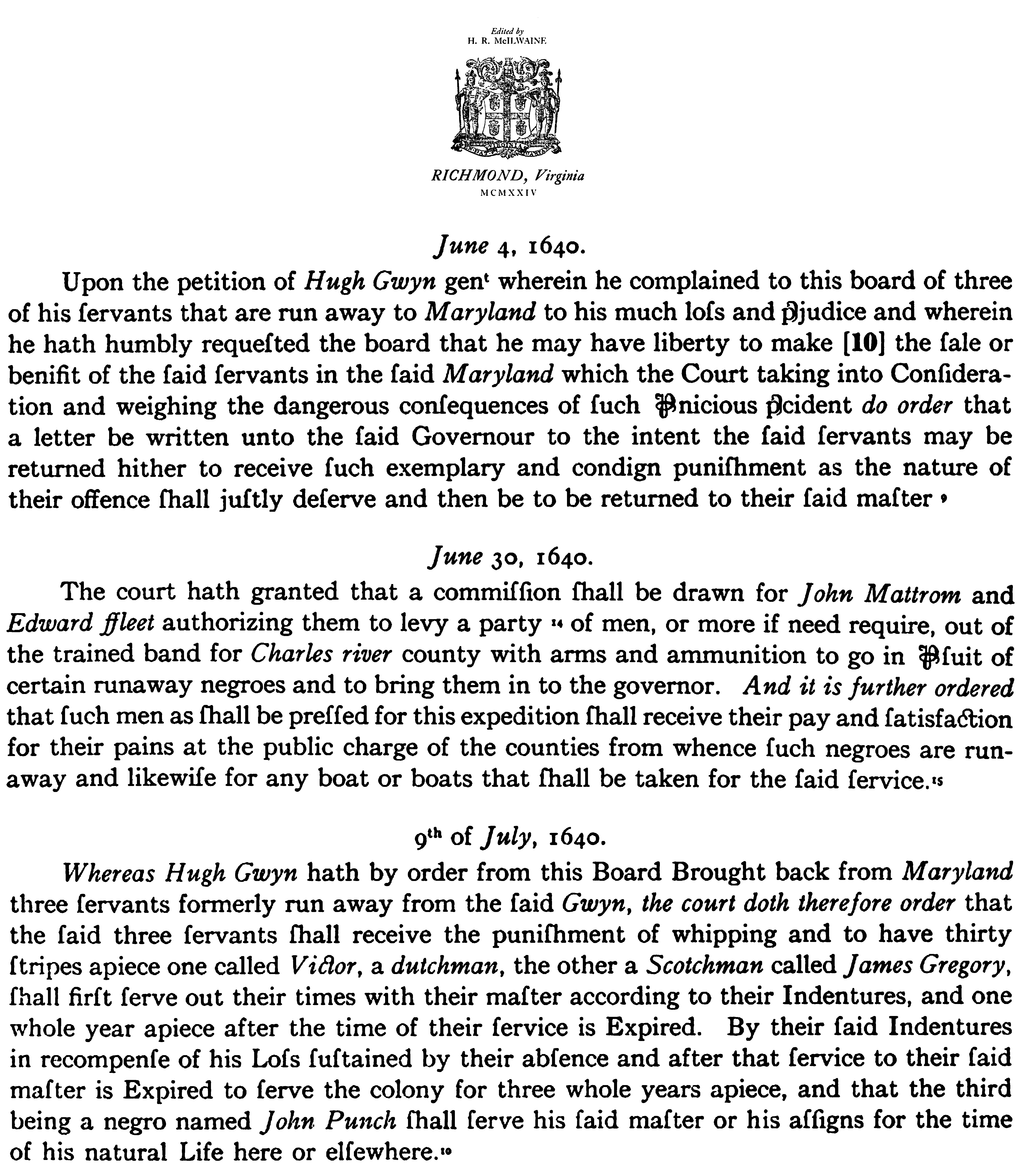 Matters pertaining to York Co. Colonist Hugh Gwynn.